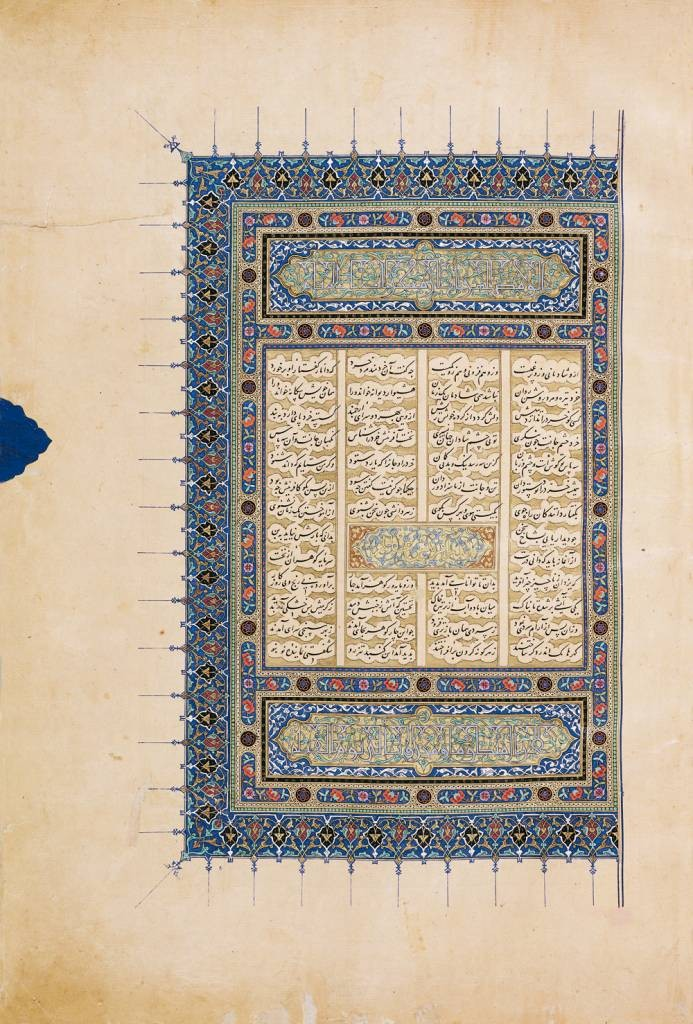 The richly illuminated double frontispiece of the Shahnameh in the Baysonqori MS, copied by Ja'far Baysonqori in a Nasta'liq script.